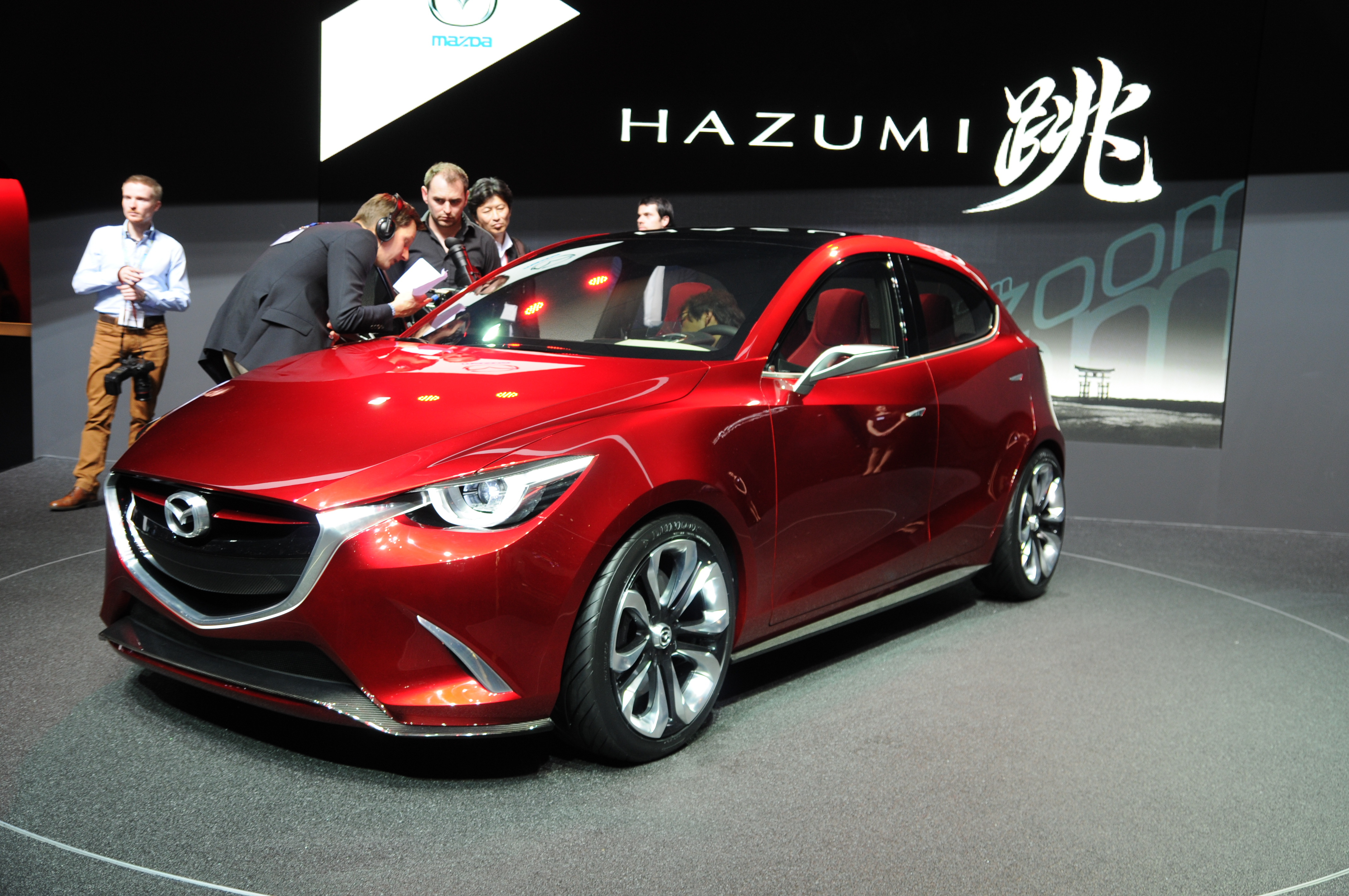 Geneva Motor Show 2014 (photo taken on the first press day)